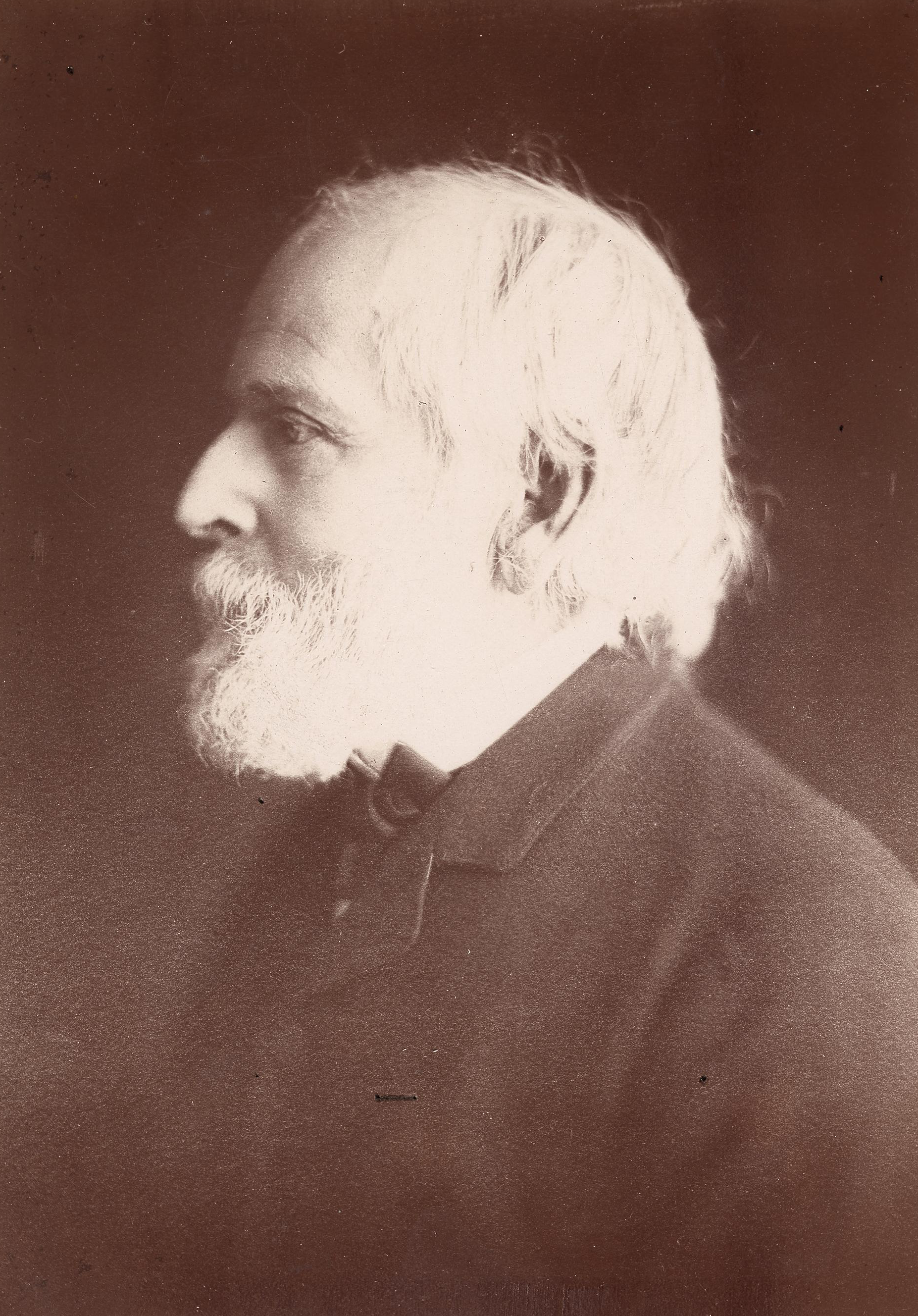 William Trost Richards circa 18901-1900